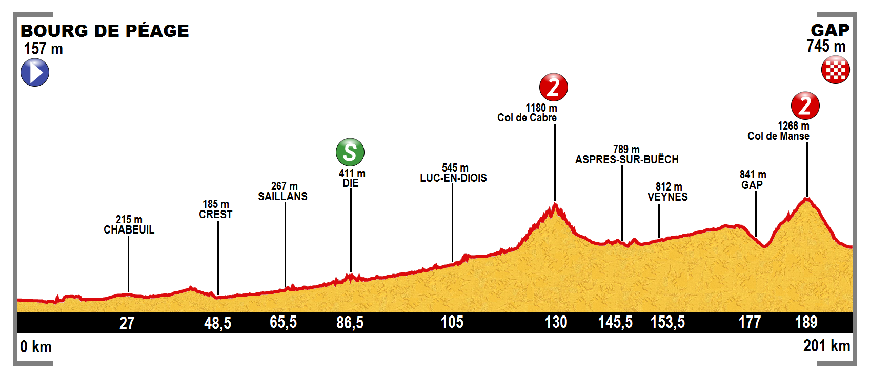 Profile of the 16th stage of the Tour de France 2015